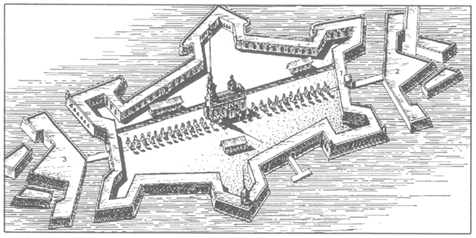 1720 plan of the peter and paul fortress in sankt petersburg